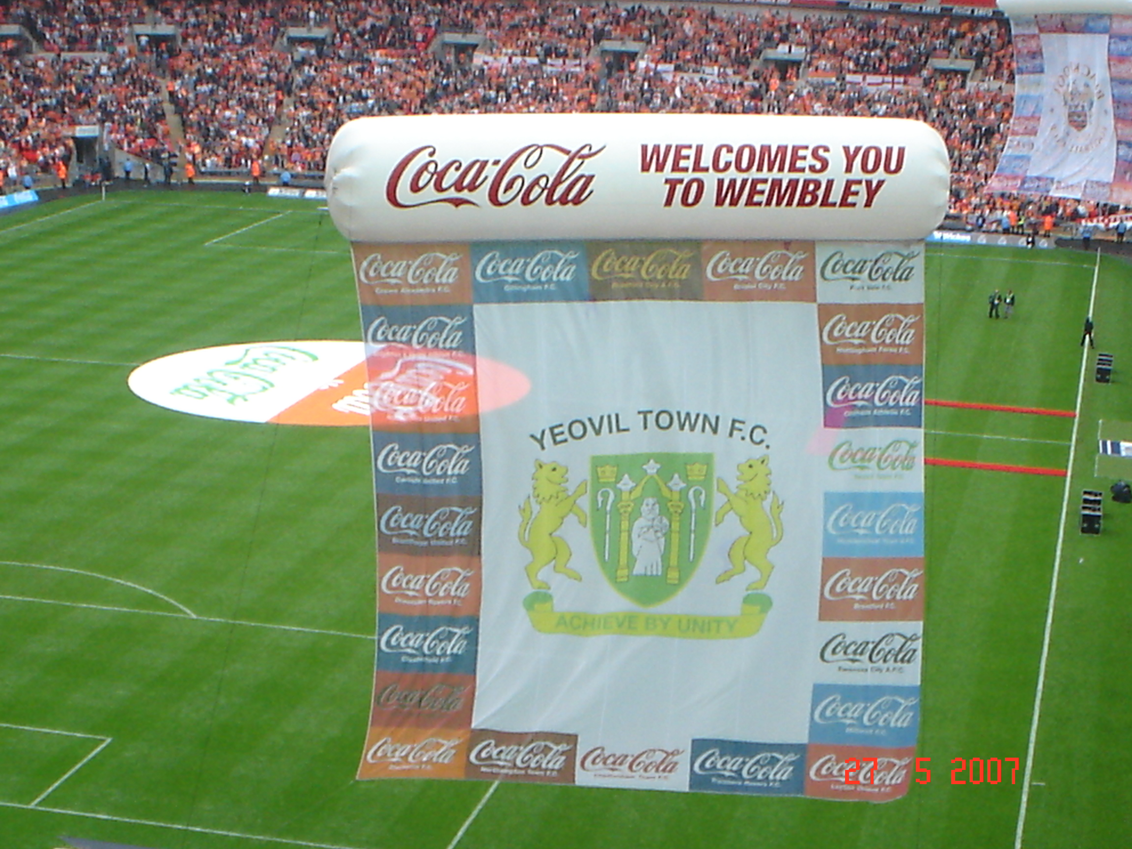 Yeovil Coca-Cola Flag at Wembley play-off final